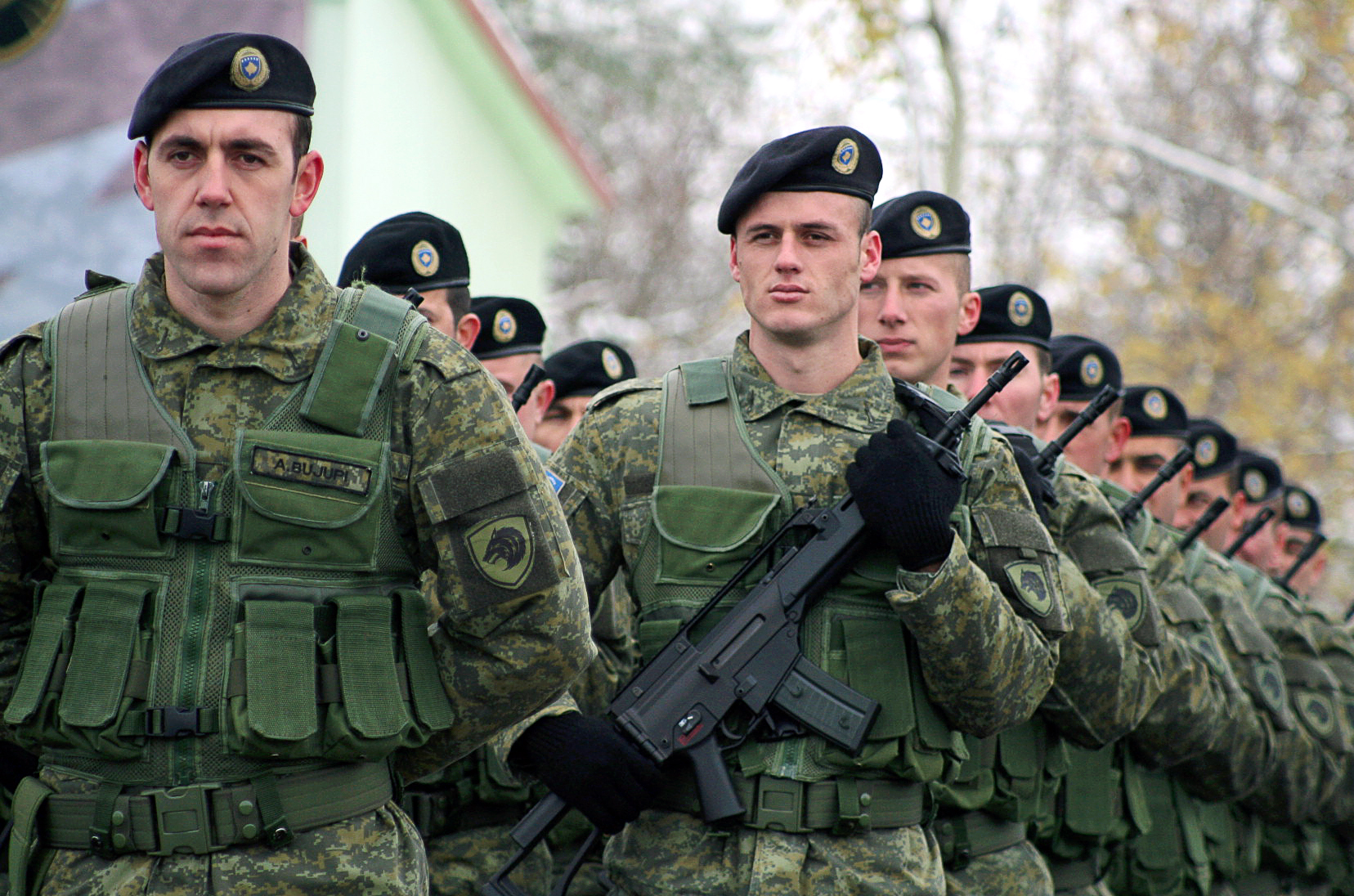 Manifestim ne kazermen Adem Jashari per nder te dites se themelimit te FSK-se (Ushtrise se Kosoves). 27 Nentori dita e themelimit te FSK-se. Celebration in Adem Jashari Barrack in honor of the day of establishment of the KSF (Kosovo Army). 27 November the official day of establishment of the KSF.